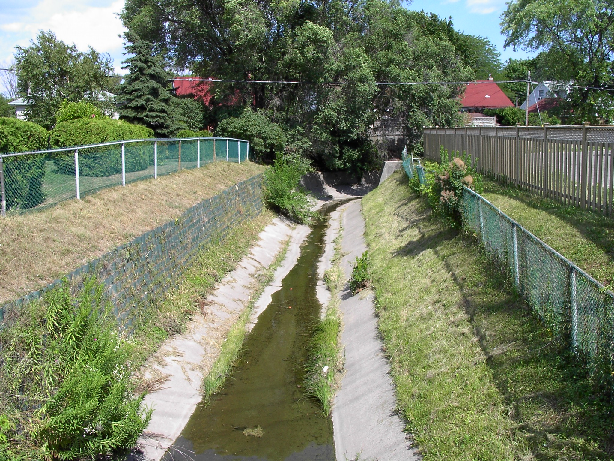 Taylor-Massey Creek looking east from Warden Avenue. This part of the creek is encased in a concrete channel.